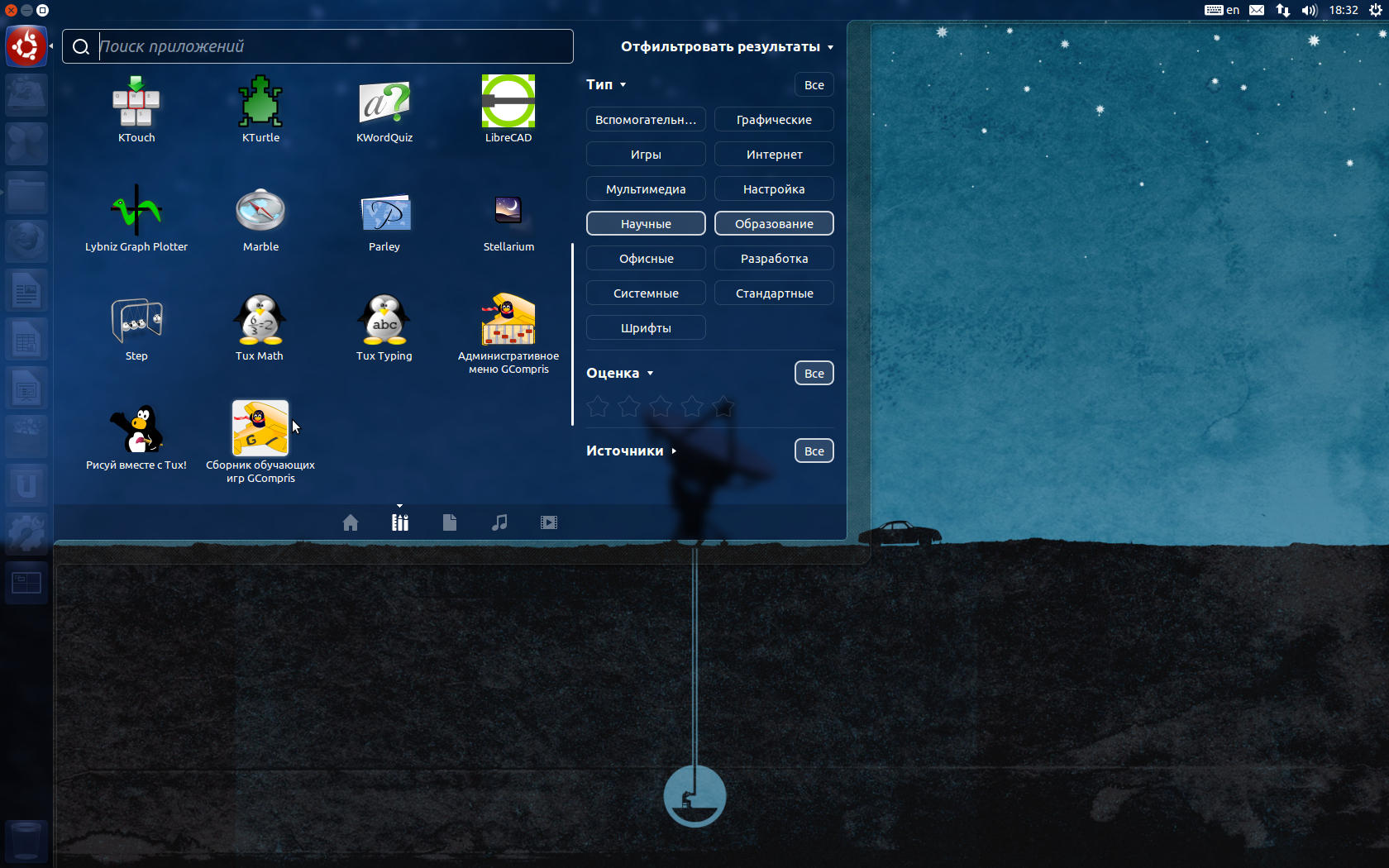 Edubuntu 12.04.2. Scientific and educational application lens. In Russian.